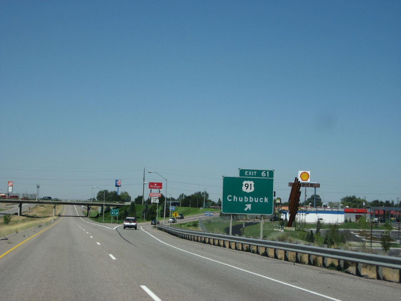 Entrance to the Chubbuck city, Idaho